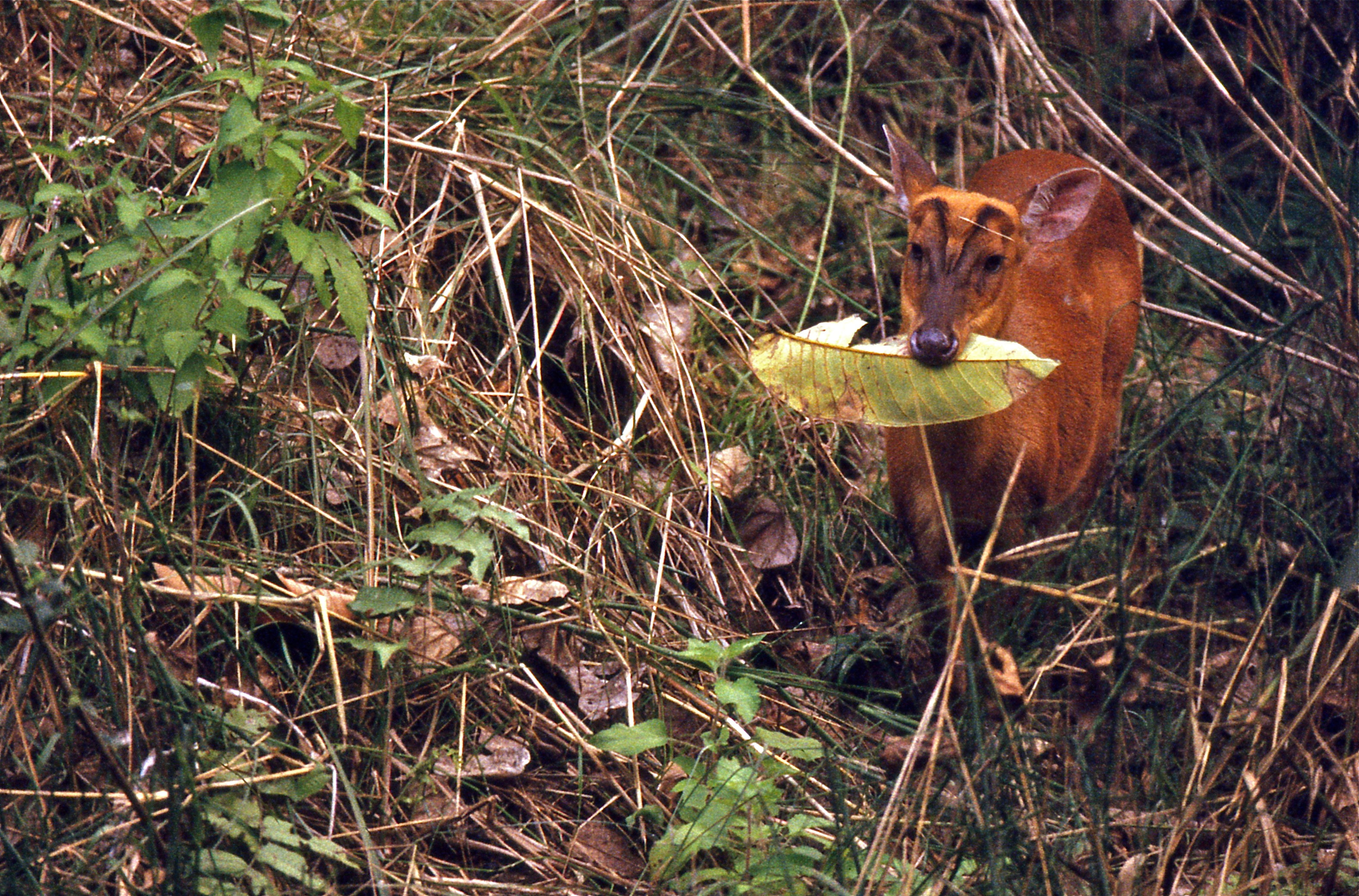 Sauraha, Chitwan NP, Terai, NEPAL Scanned Slide from January 1996